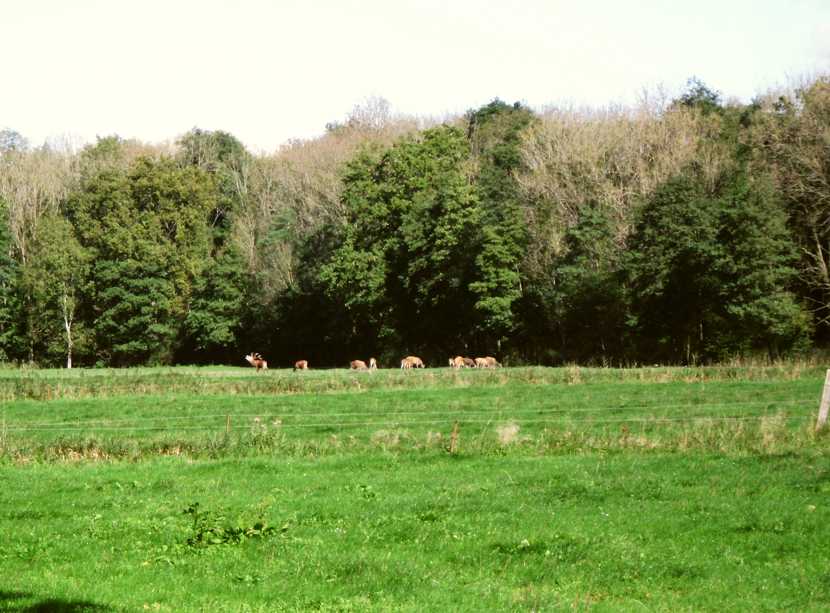 The visible effects of ash dieback in the forests of Western Pomerania, near the Baltic Sea.